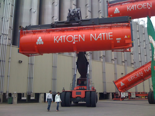 KTN Stacker